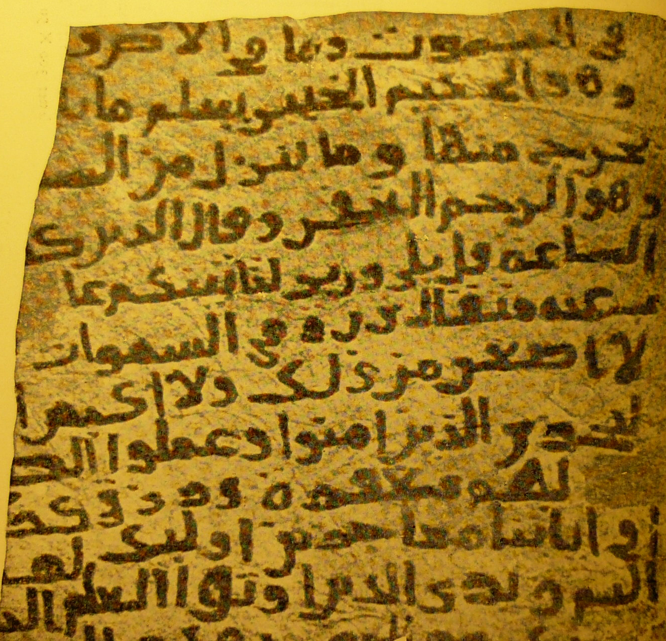 Egyptian block printed of 34th sure of Qur'an